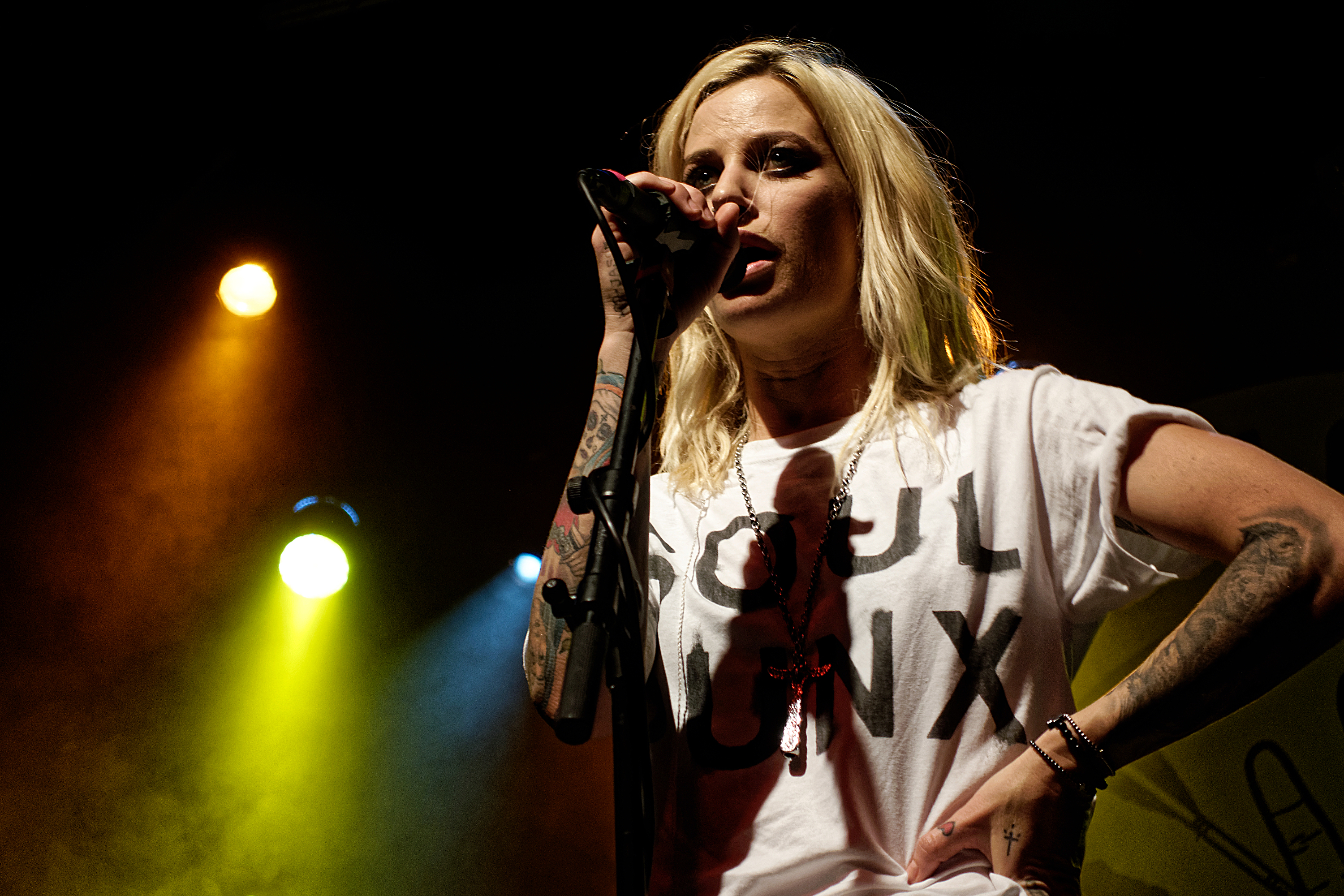 Gin Wigmore (with openers Matthew Santos and Gentlemen) performing live at the El Rey Theatre in Los Angeles California on Thursday May 5th, 2016. This was the final show on Gin's "Willing to Die" Tour.